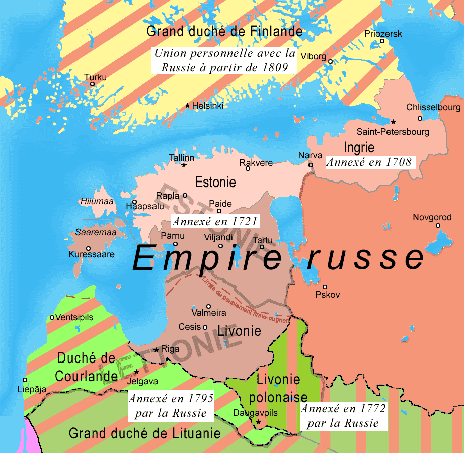 The Baltic provinces in the Russian Empire from 1708 to 1809 (french version)